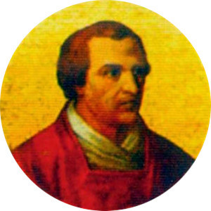 Portait of Pope John XIV in the Basilica of Saint Paul Outside the Walls, Rome